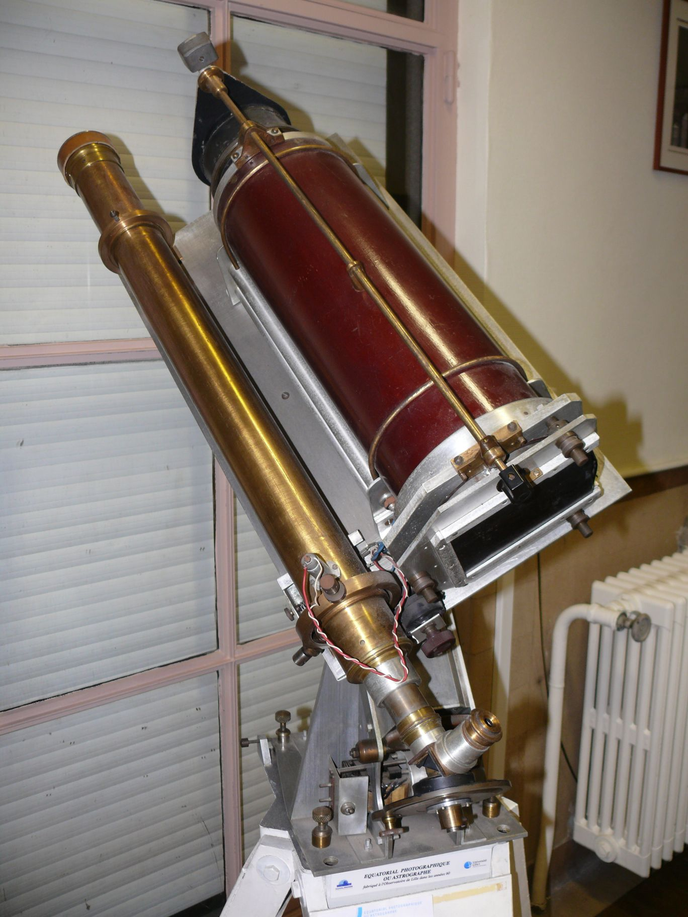 Astrograph of the 1960s at Lille observatory (Nord, France).